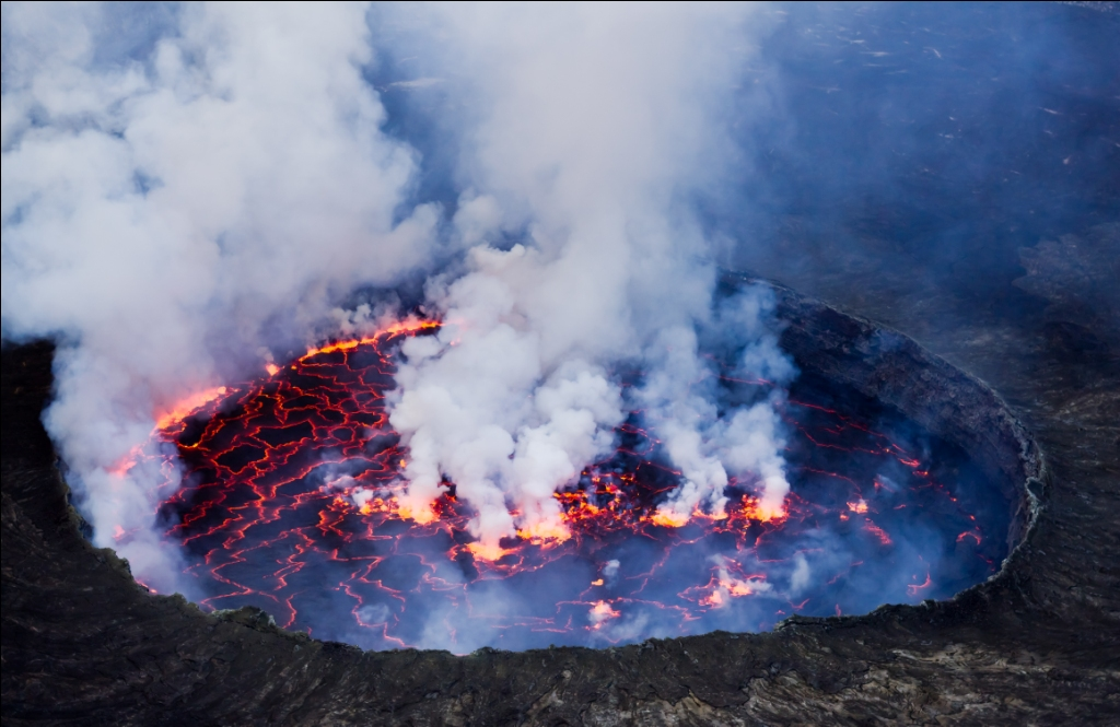 Nyriragongo Lava Lake. The Nyiragongo has a continously boiling lava lake easily visible from the edge of the crater, Virunga National Park.